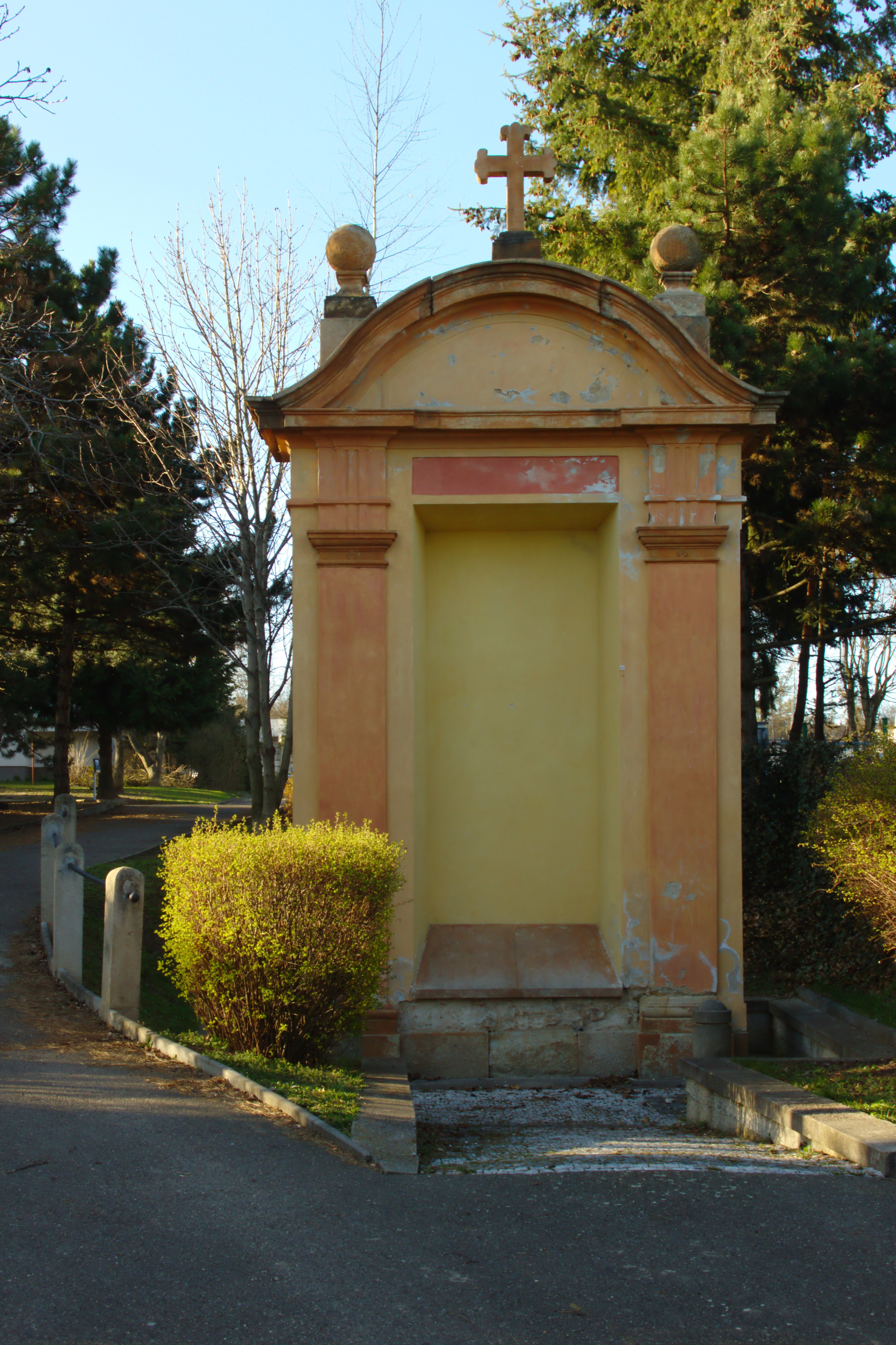 A chapel of the Hradčany-Hájek trail in Prague-Břevnov, CZ